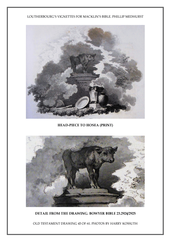 Head-piece to Hosea. Hosea 8:5. Vignette with a statue of a calf with fire burning in urn decorated with ram's heads beside a jug, platter and knife in the foreground; letterpress in two columns below and on verso. 1797. Inscriptions: Lettered below image with production detail: "P J de Loutherbourg del". "J Landseer aq f Fecit" and publication line: "Published July 4 1797 by T Macklin London". Print made by John Landseer. Dimensions: height: 488 millimetres (sheet); width: 396 millimetres (sheet).